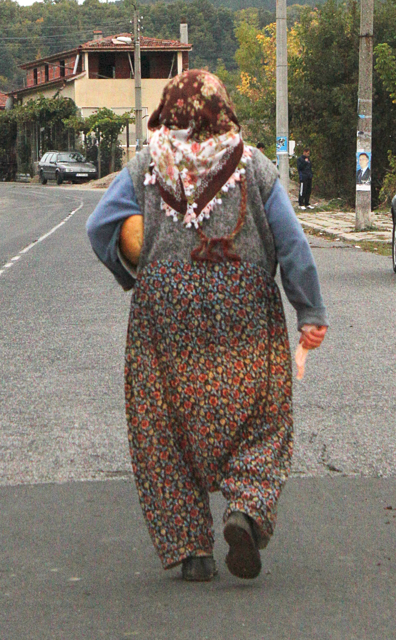 Shalwari, Kardzhali District, Bulgaria